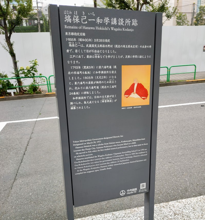 Touristic sign of the remains of Wagakukodansho in Chiyoda, Tokyo